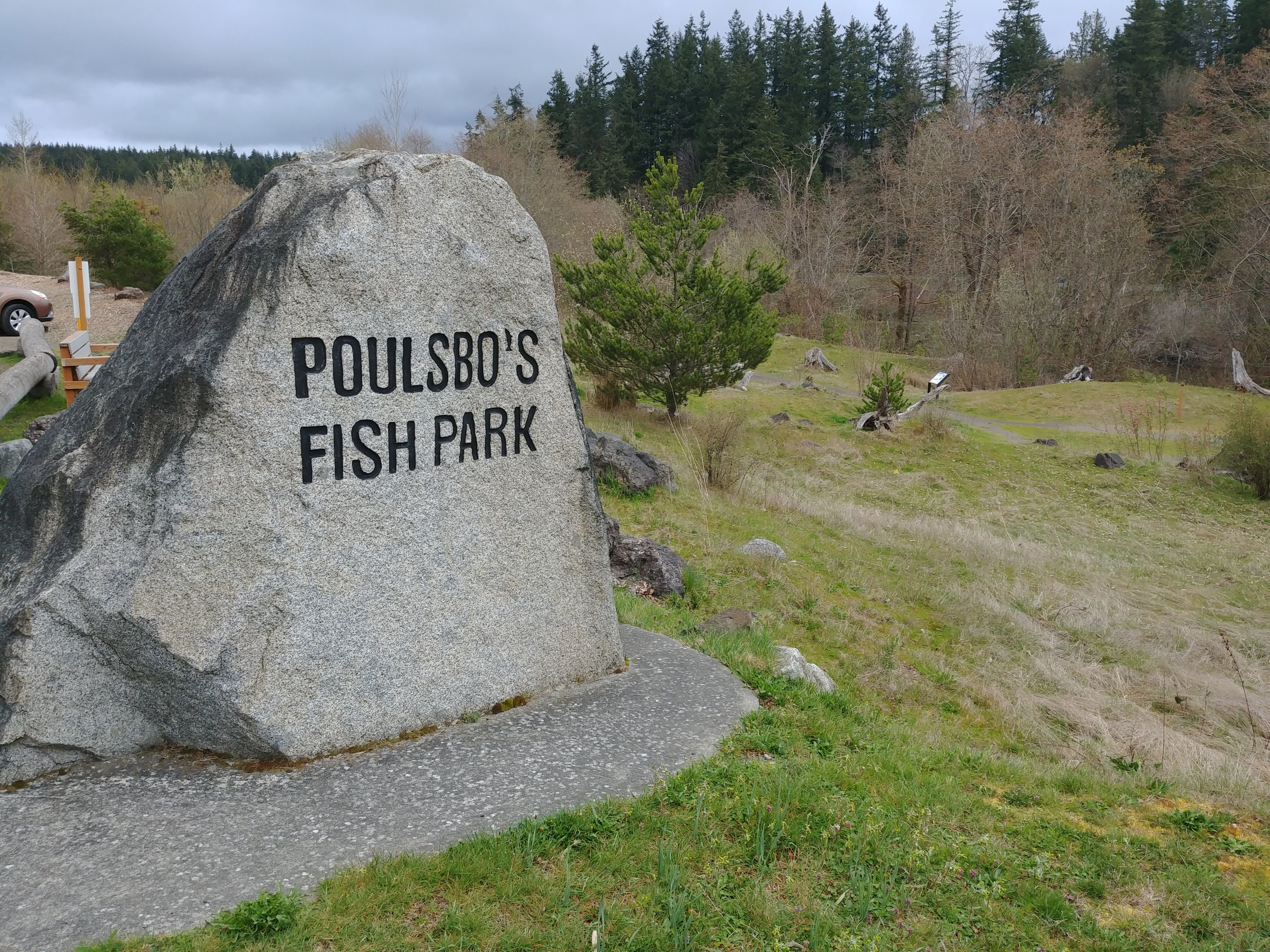 Boulder at south entrance to Poulsbo's Fish Park. Photo shows a grassy lawn with a large gray boulder in which is etched the words "POULSBO'S FISH PARK". A hill with scraggly grass and a rough trail slopes down to the right where there are some leafless deciduous trees and beyond them, some evergreens.